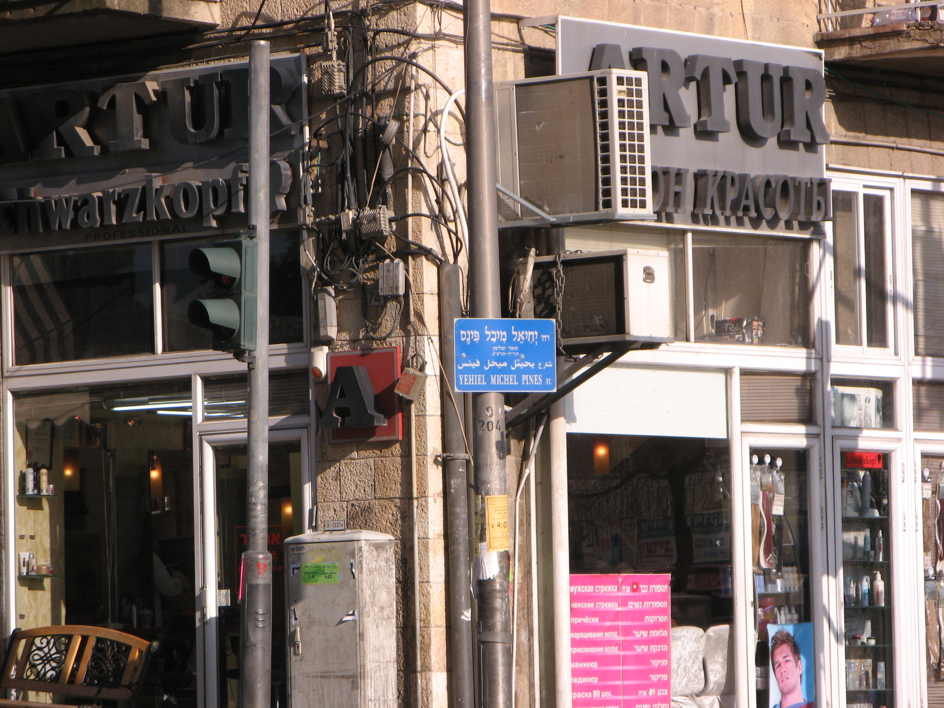 Street sign of Yehiel Michal Piness in Jerusalem